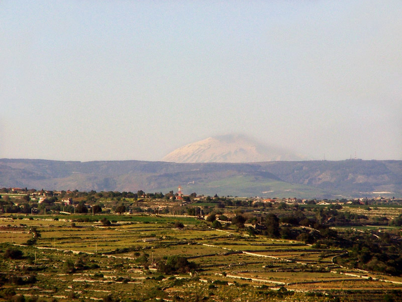 Countryside in the Iblei mounts in Sicily Modica (RG)